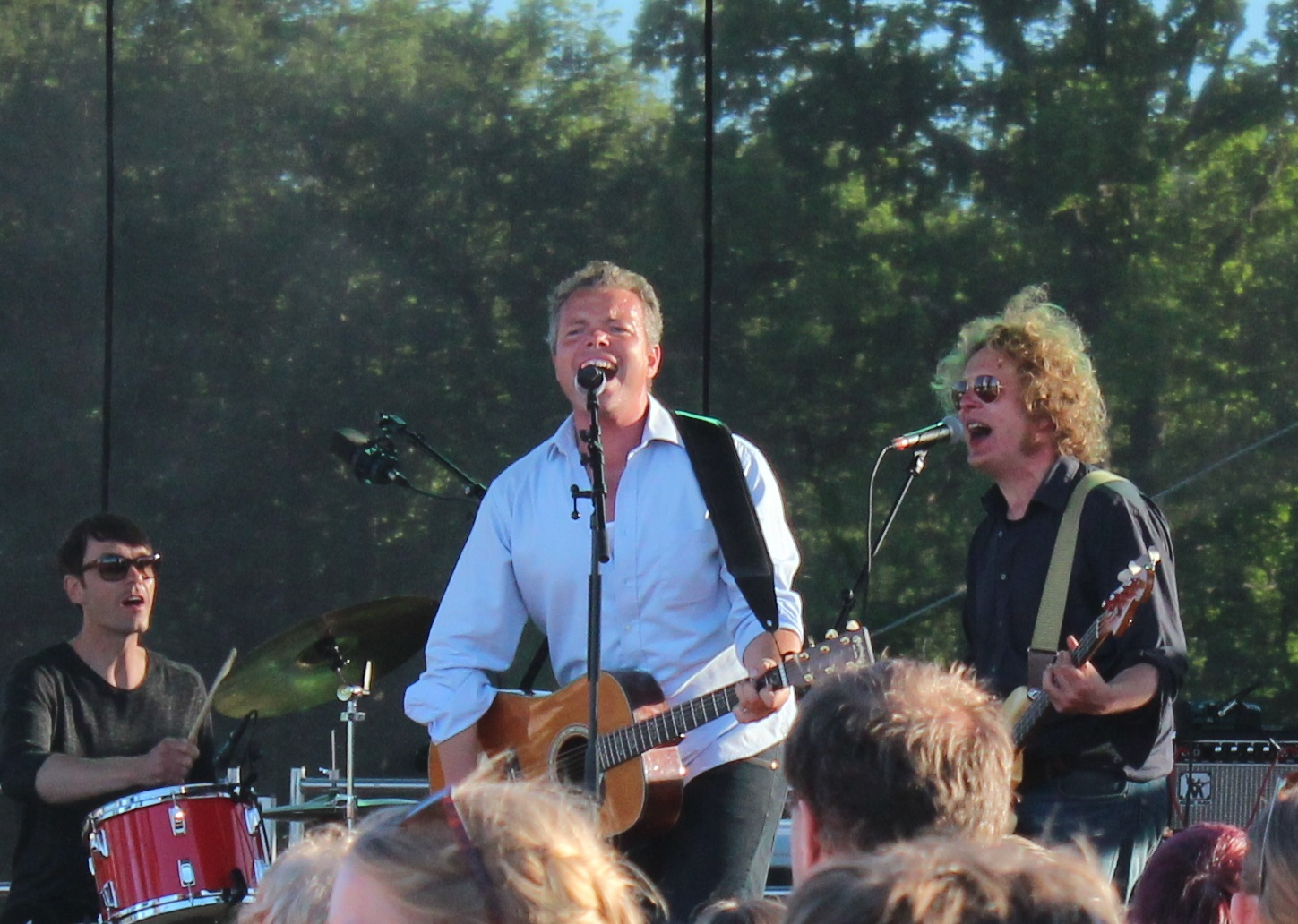 Rasmus Nøhr under Danmark Dejligst d. 27. maj 2017.